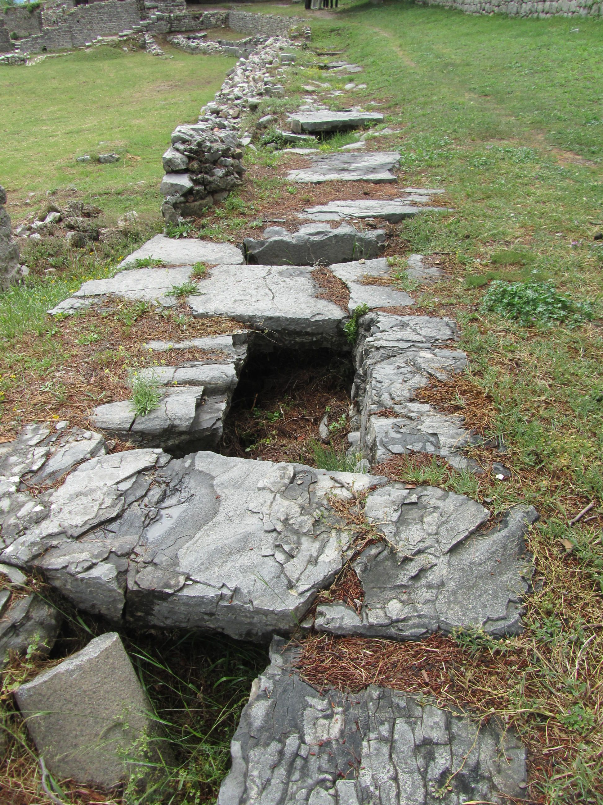 Part of the Roman aqueduct of Salona (near Solin, Croatia); early 1st c CE